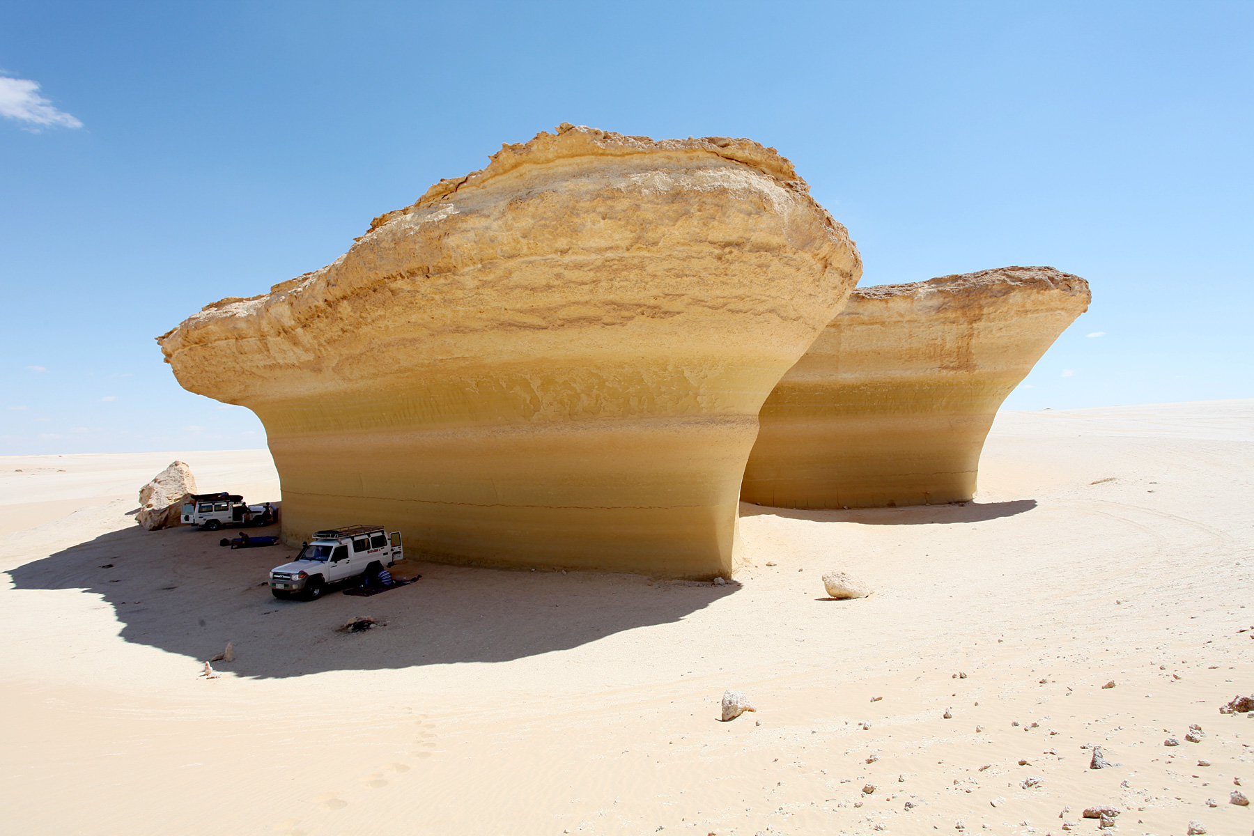 Limestone double rock at Darb Siwa